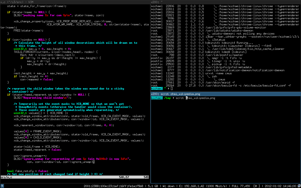 Screenshot of a typical i3 session.